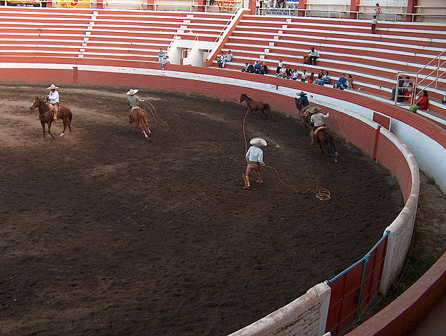 Charreada in Arandas